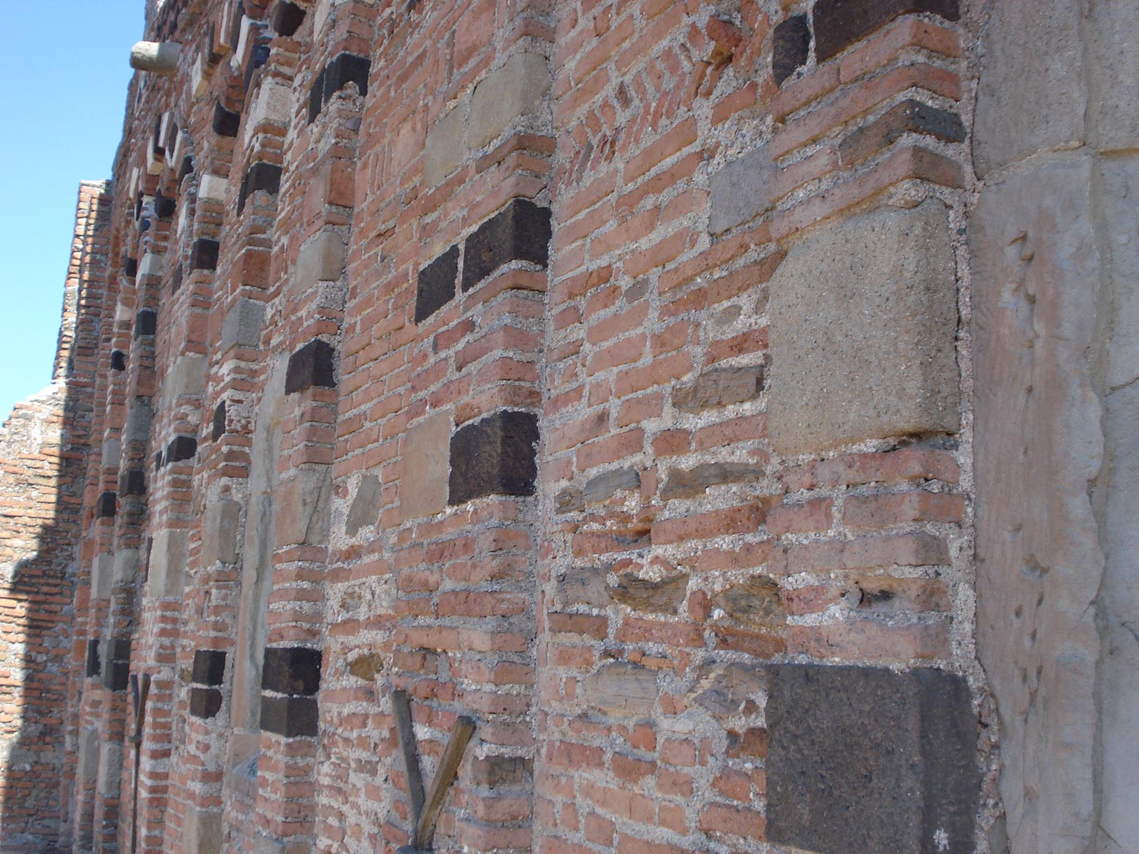 Northern wall